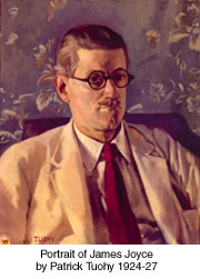 University at Buffalo Libraries